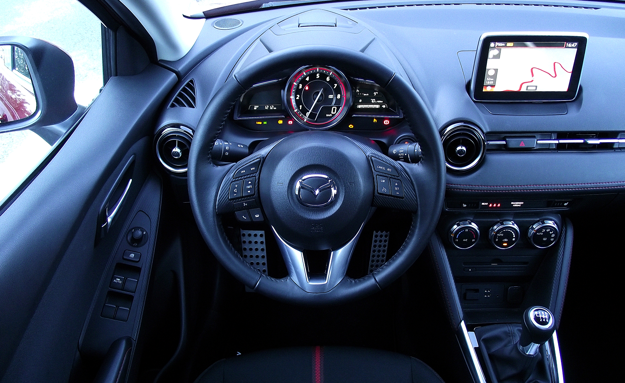 Mazda2 Typ DJ 1.5 SKYACTIV-G 115 i-ELOOP Sports-Line Cockpit